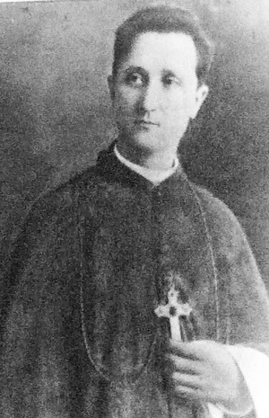 Picture of Bishop Augustine F Schinner, Diocese of Superior, 1905-1913